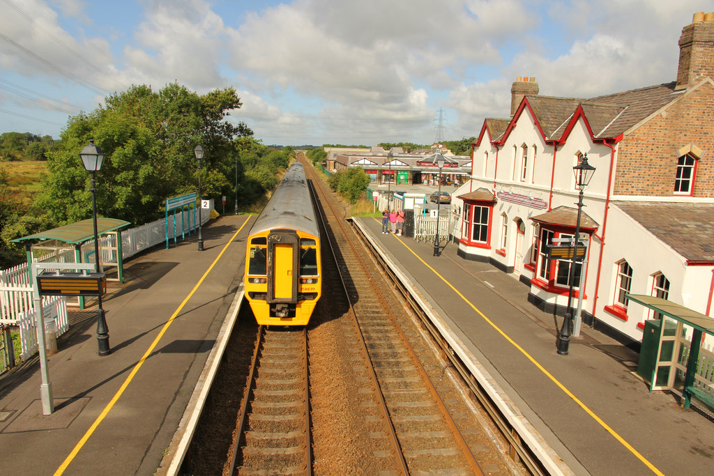 Llanfairpwllgwyngyllgogerychwyrndrobwllllantysiliogogogoch station